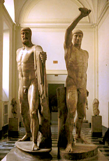 Statue of Harmodius and Aristogeiton, Roman copy of Greek bronze, Naples National Archaeological Museum.